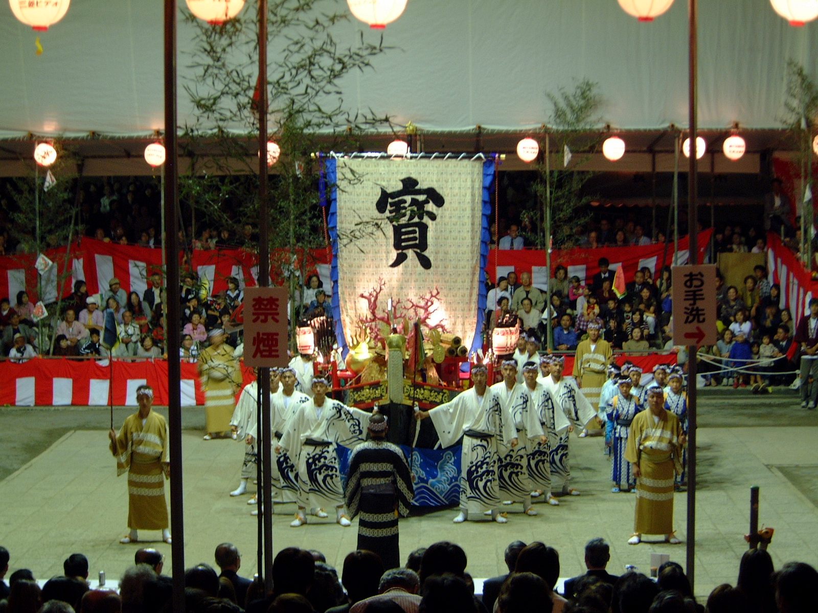 Nagasaki Kunchi